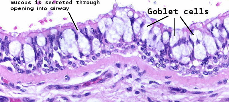 Cropped version of Bronchial goblet cell hyperplasia.jpg